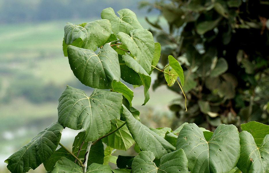 Cissus repanda (syn. Vitis repanda, Vitis pallida)- Pani Bel, Wavy-leaved Cissus • Hindi: पानी बेल Pani bel, Dekarbela • Manipuri: খোংঙৌযেন Khongngouyen • Marathi: गेंदळ Gendal • Telugu: Gummadithige, Nelaboddu, Pasupugodanithegani • Assamese: Medmedia-lop- in Keesara, Rangareddy district, Andhra Pradesh, India.